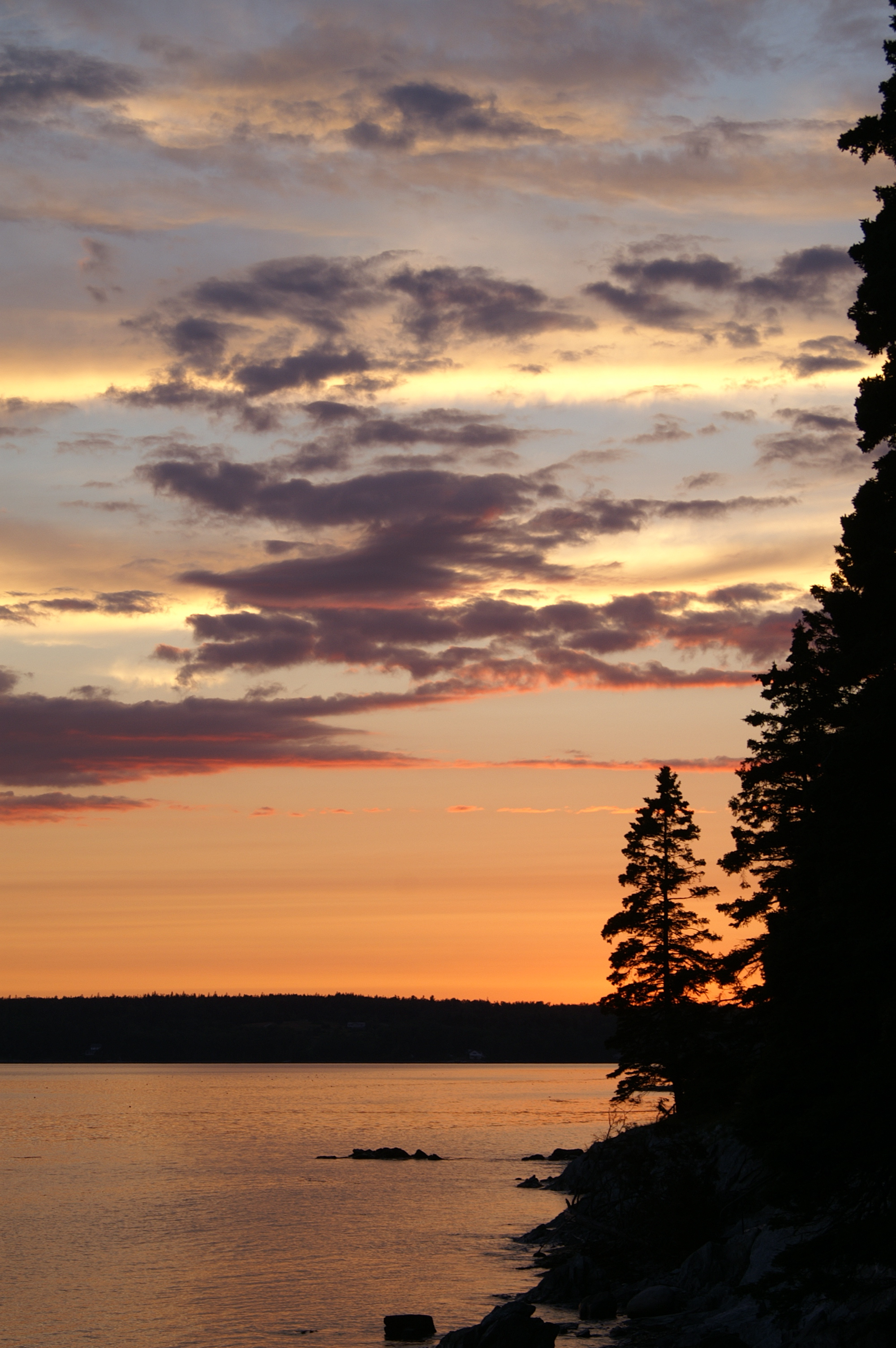 Sunset from the beach at Hancock Point, Maine